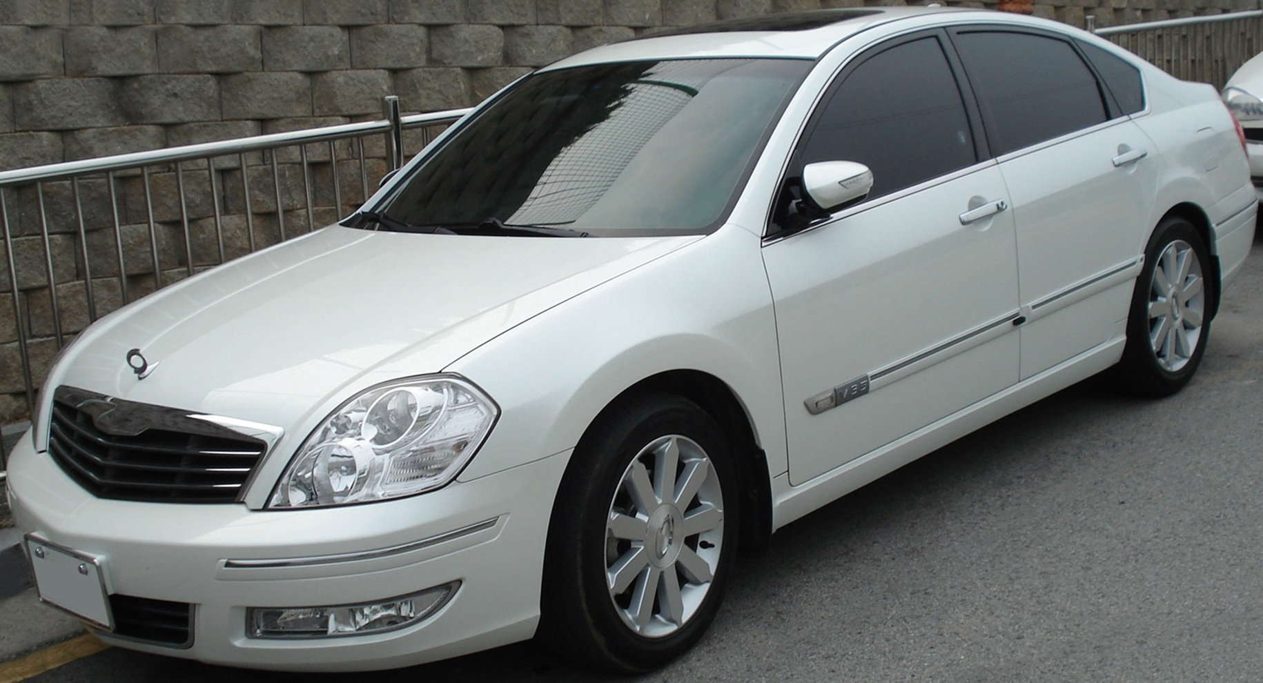 Renault Samsung SM7